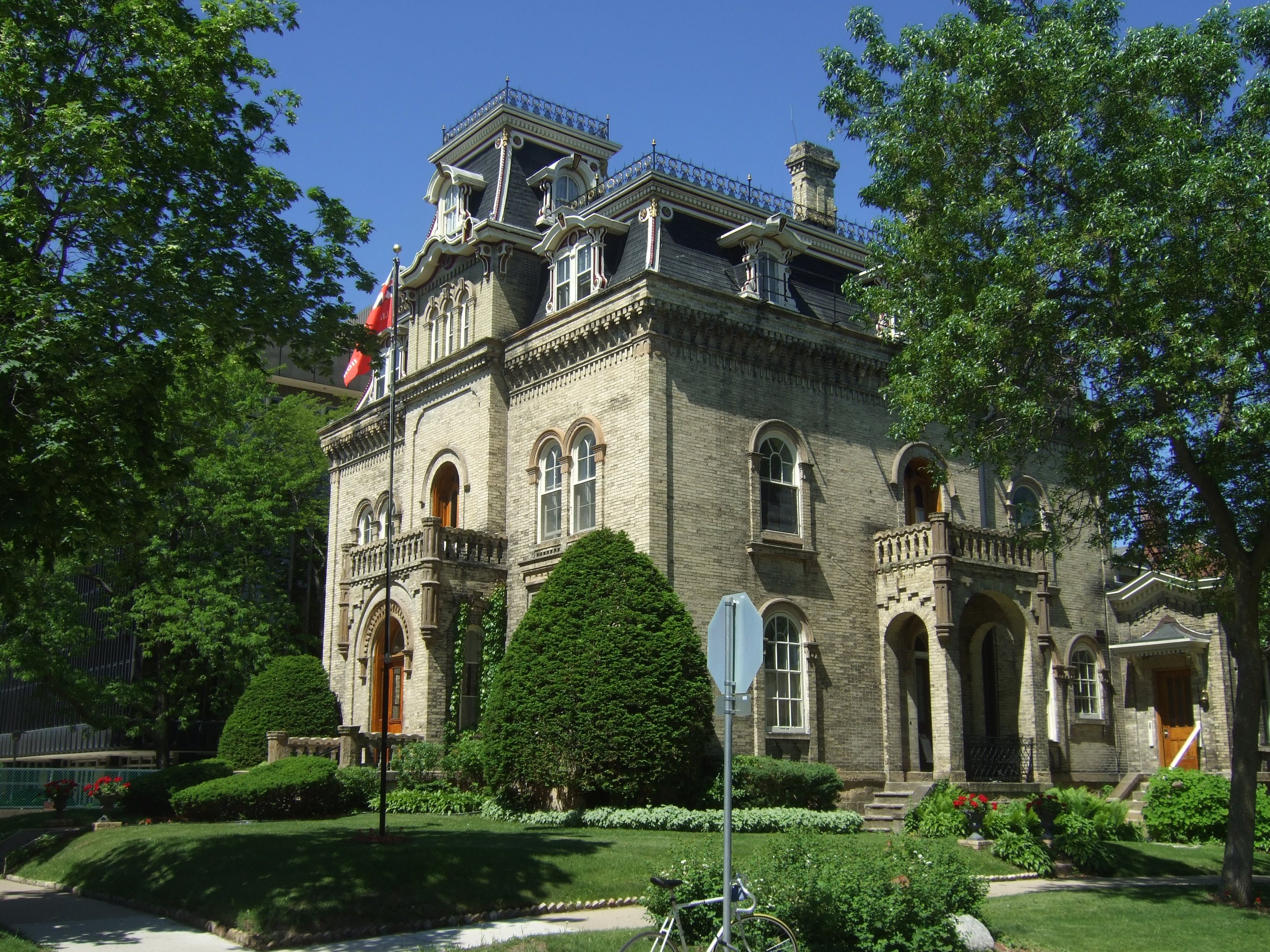 The Napoleon and Abigail Van Slyke House (1857/1870) in Madison, Wisconsin, also known as the Keenan House, was designed by August Kutzbock in the Rundbogenstil style. The Second Empire mansard roof is a later addition. The house is in the Mansion Hill Historic District. Additional information online.